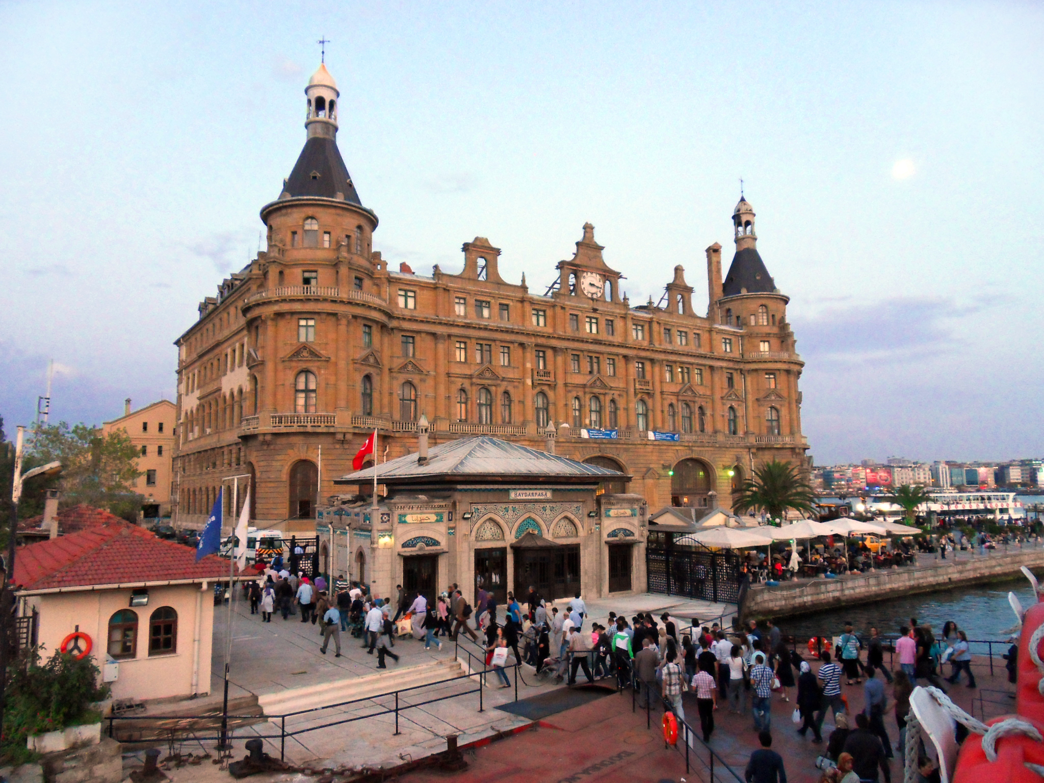 Haydarpaşa Terminus And Pier